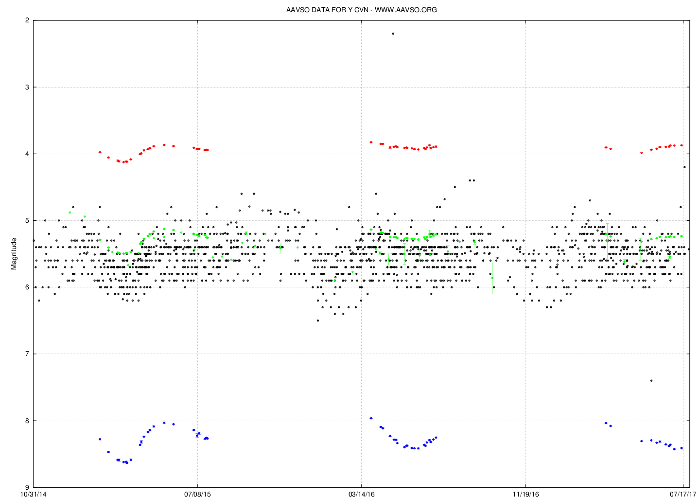 Y Canum Venaticorum light curve created using the AAVSO Light Curve Generator tool. It includes visual and photoelectric observations in the R, G, and B filters.